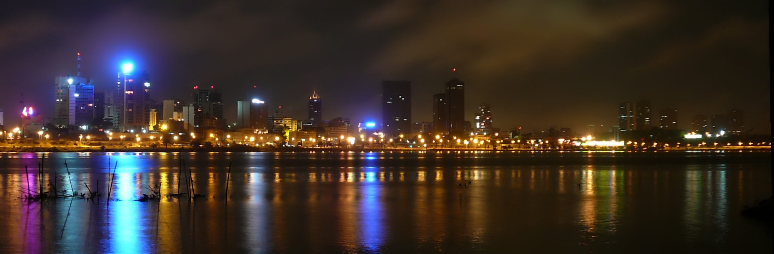 Panorma of Abidjan City Center, Ivory Coast